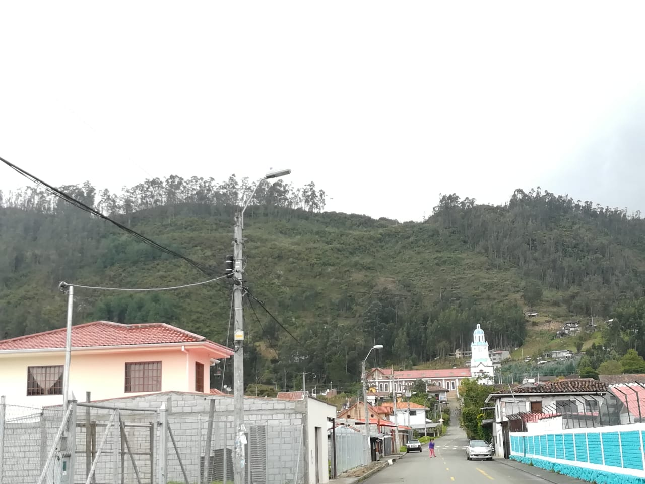 Clima Paccha Cuenca